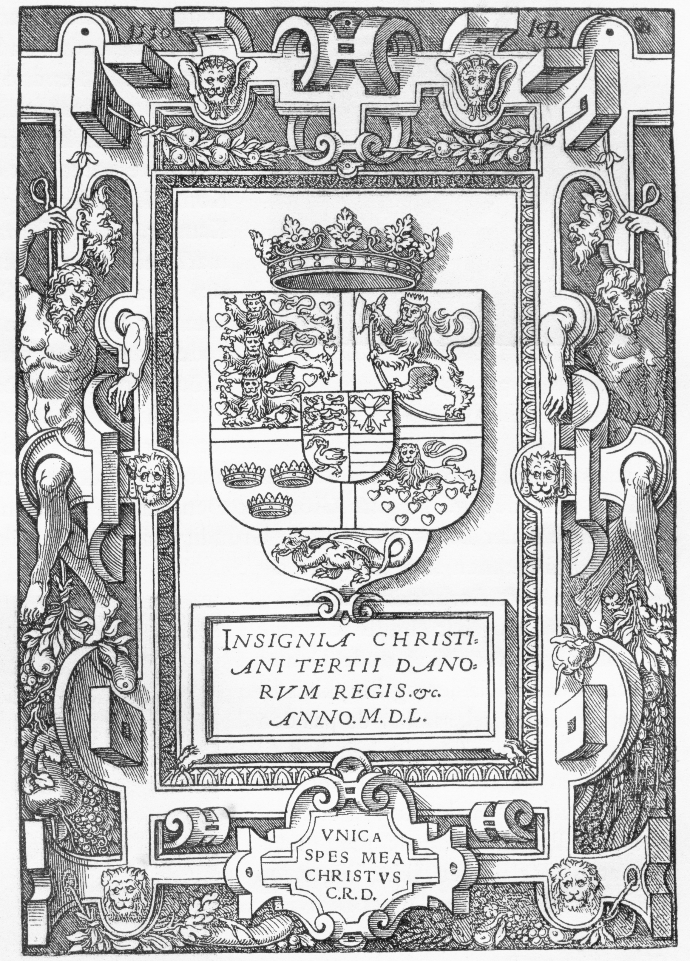 Coat of arms of Christian III of Denmark and Norway, as depicted in the Danish Bible published by the same monarch, 1550. Illustration created by Jakob Binck.